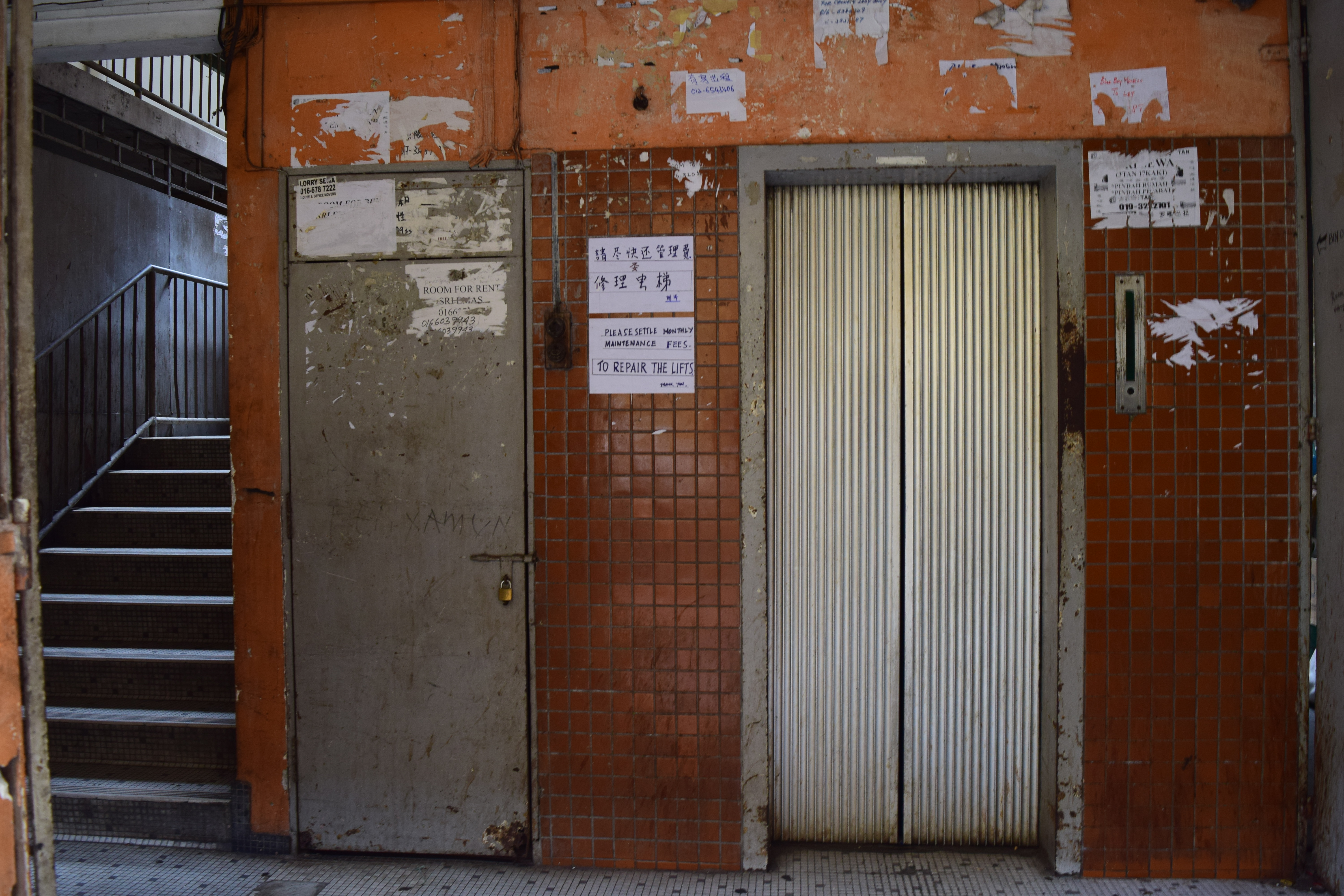 Old lifts of Blue Boy Mansion